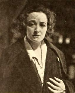 Still from the American film The Peace of Roaring River (1919) with Pauline Frederick, page 1476 of the August 16, 1919 Motion Picture News.